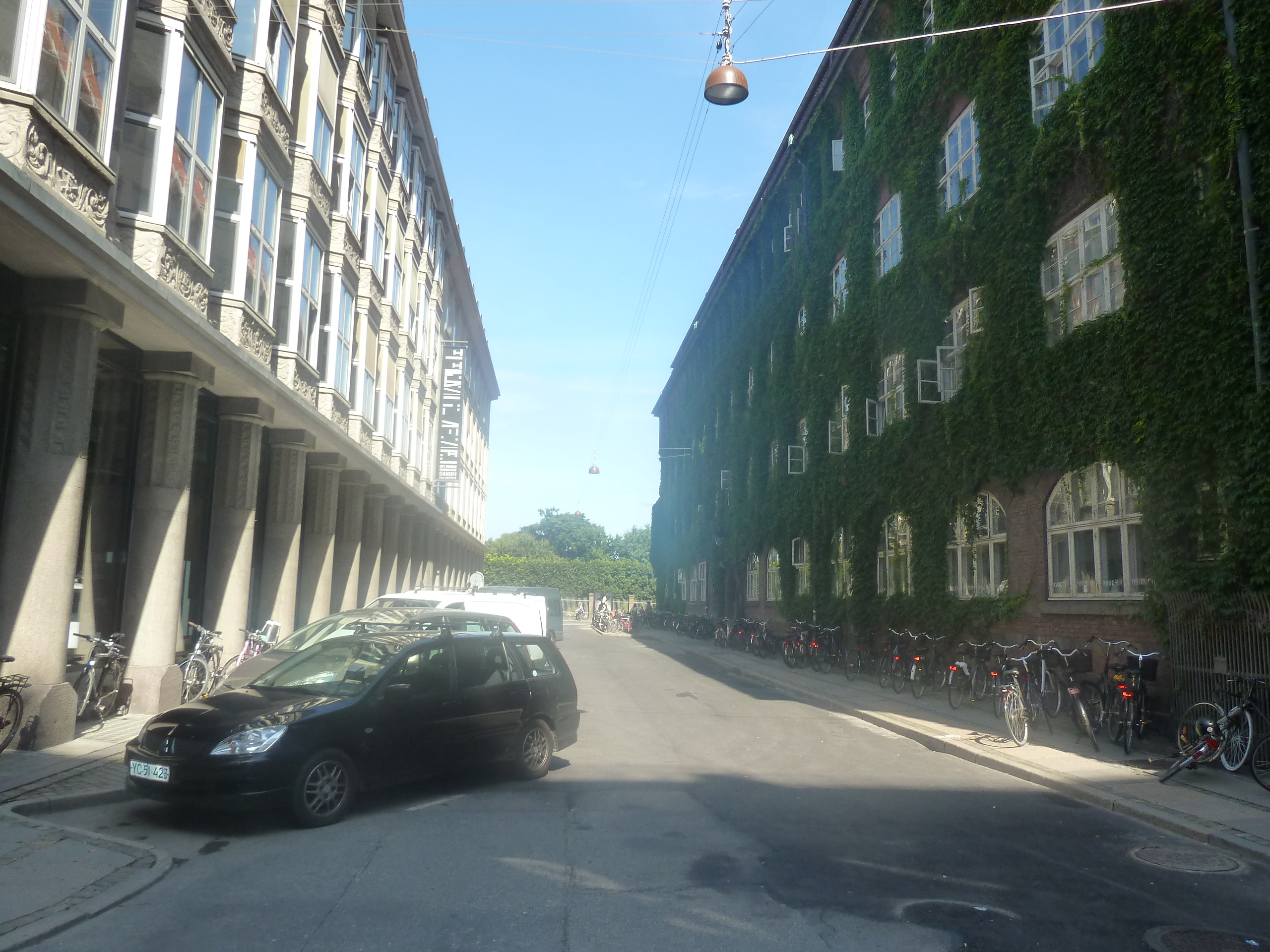 The street Lønporten in Indre By in Copenhagen.